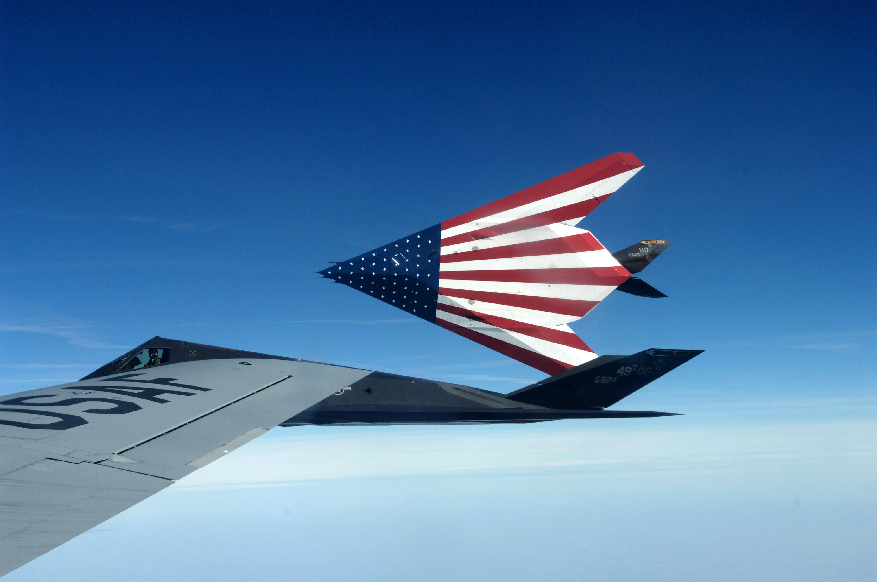 A pair of specially painted F-117 Nighthawks fly off from their last refueling by the Ohio National Guard's 121st Air Refueling Wing. The F-117s were retired March 11 in a farewell ceremony at Wright-Patterson Air Force Base, Ohio.